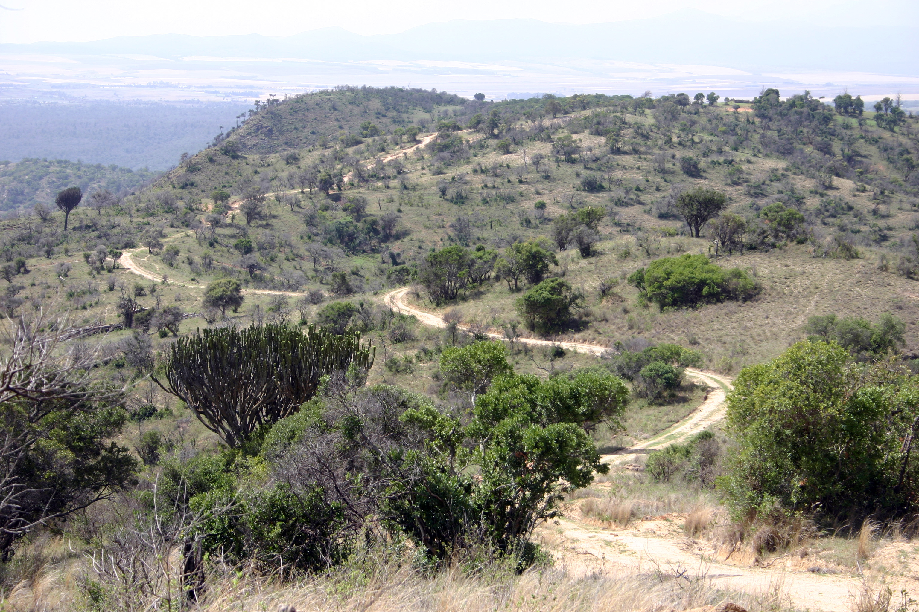 On the road to Lewa. Some euphorbia and accacia along.seldom